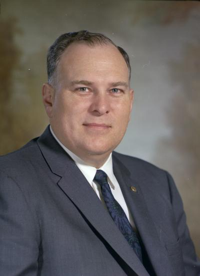 Representative William S. Day